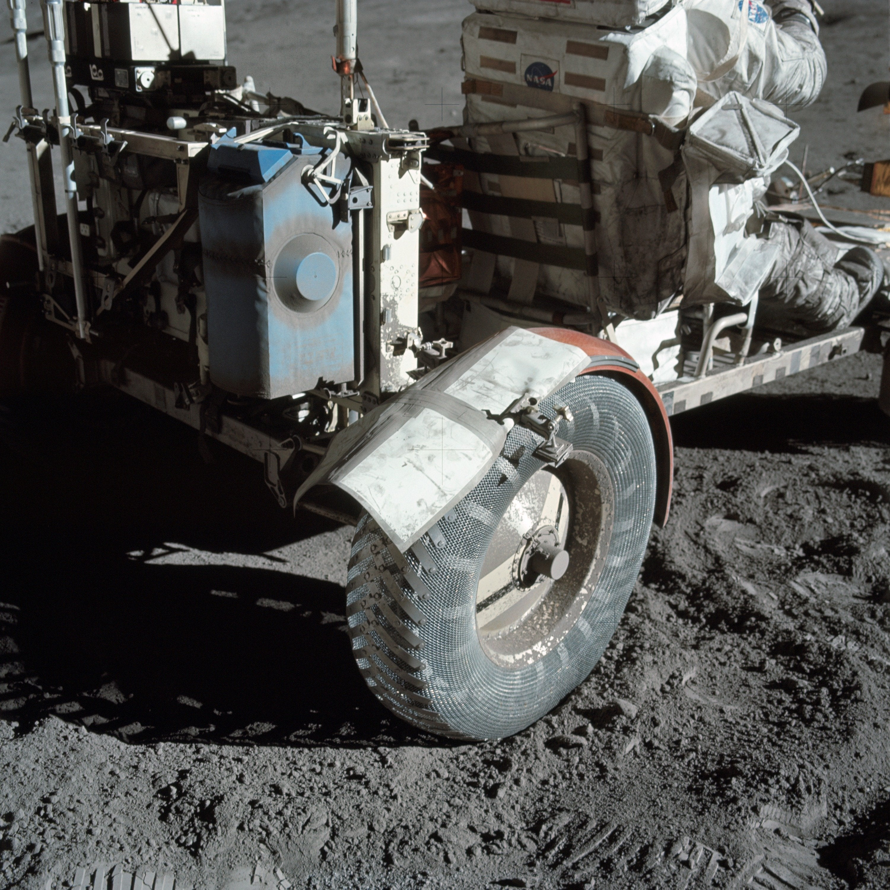 Lunar Rover, Taurus-Littrow Valley, Apollo 17